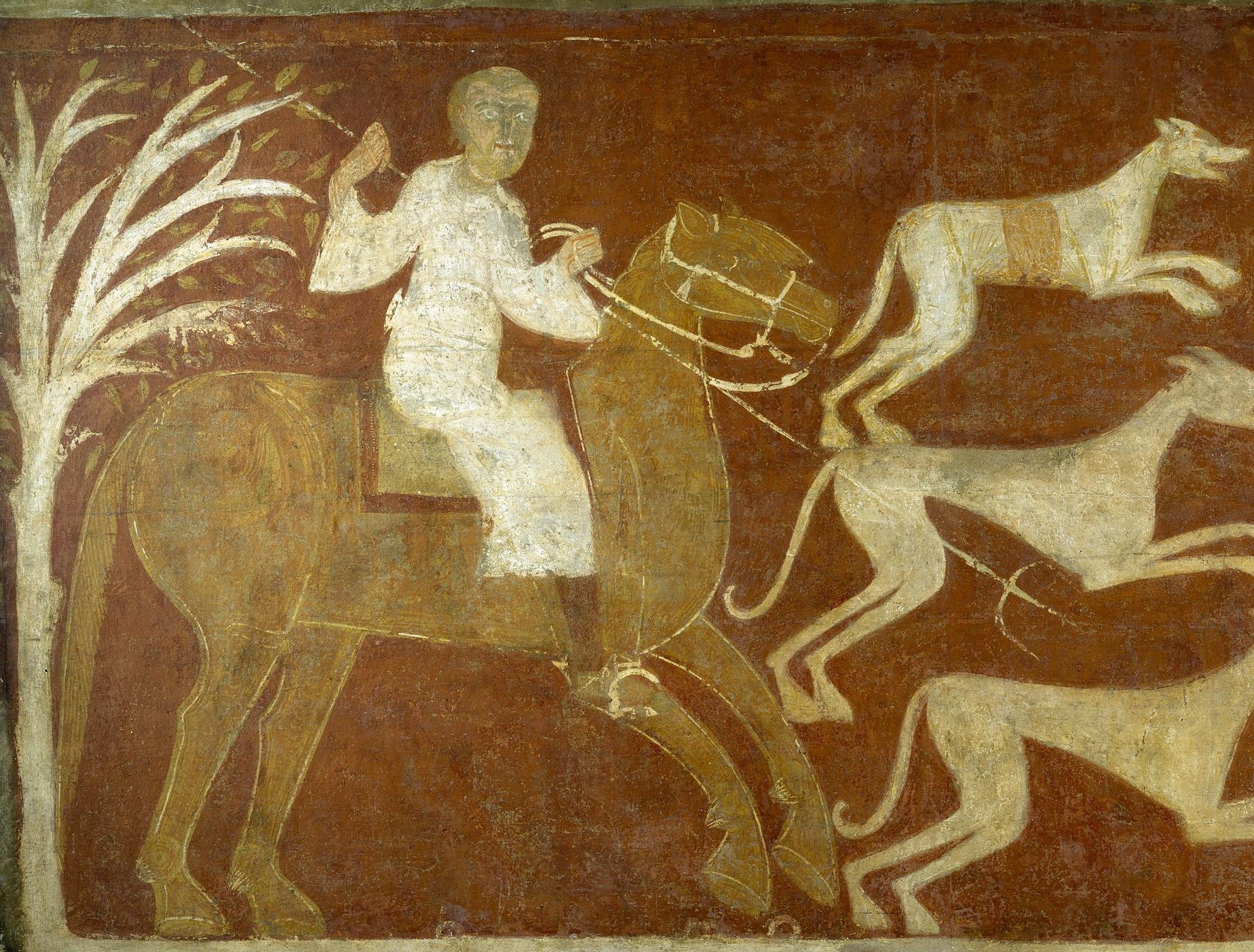 Frescos from the Church of San Baudelio de Berlanga, Soria, Spain 12th century